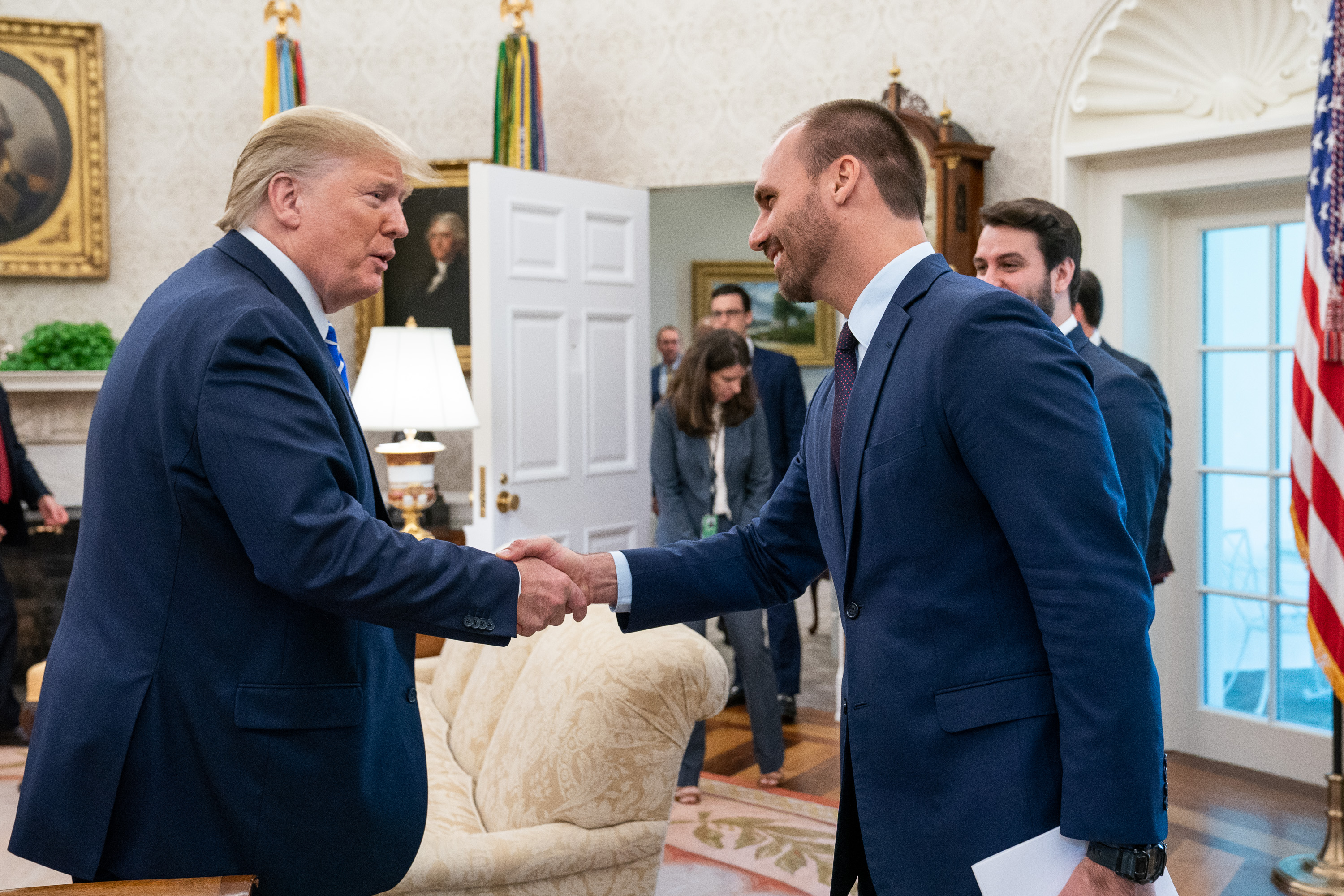 President Donald J. Trump, joined by Secretary of State Mike Pompeo, meets with Brazil’s Minister of Foreign Affairs Ernesto Henrique Araujo; Brazil Congressman and Foreign Affairs Committee President Eduardo Nantes Bolsonaro and Brazil International Affairs Advisor Filipe Martins on Friday, Aug. 30, 2019, in the Oval Office of the White House. (Official White House Photo by Joyce N. Boghosian)